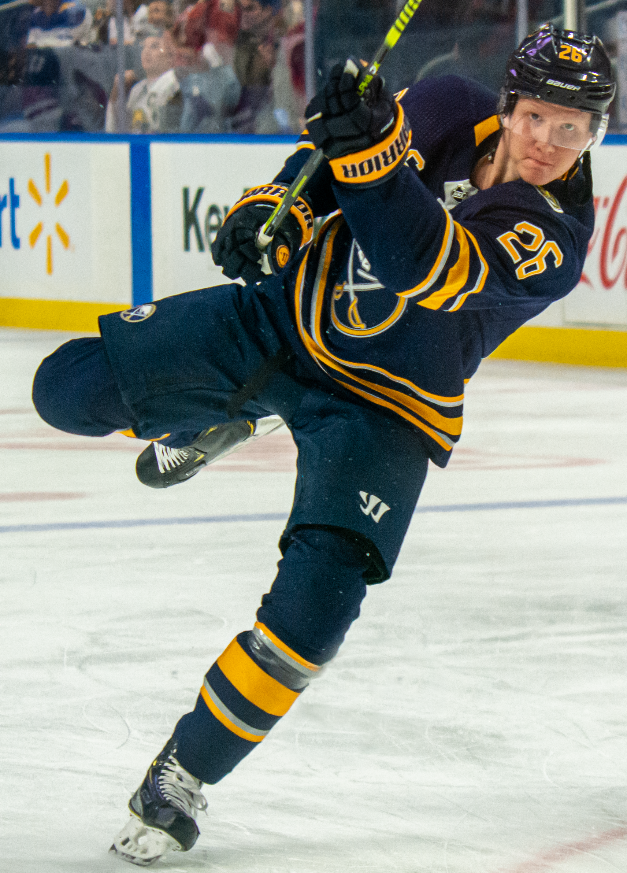 A photo of Rasmus Dahlin taken during warm-ups prior to a Buffalo Sabres vs Arizona Coyotes NHL hockey game on October 28, 2019